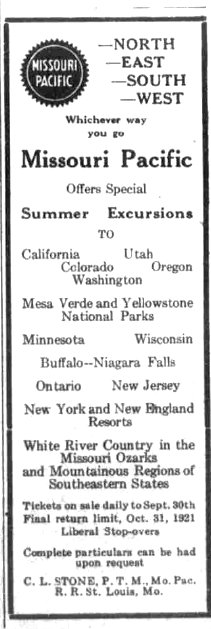 July 1921 newspaper ad for travel on the Missouri Pacific. Cropped, lightened using GIMP.